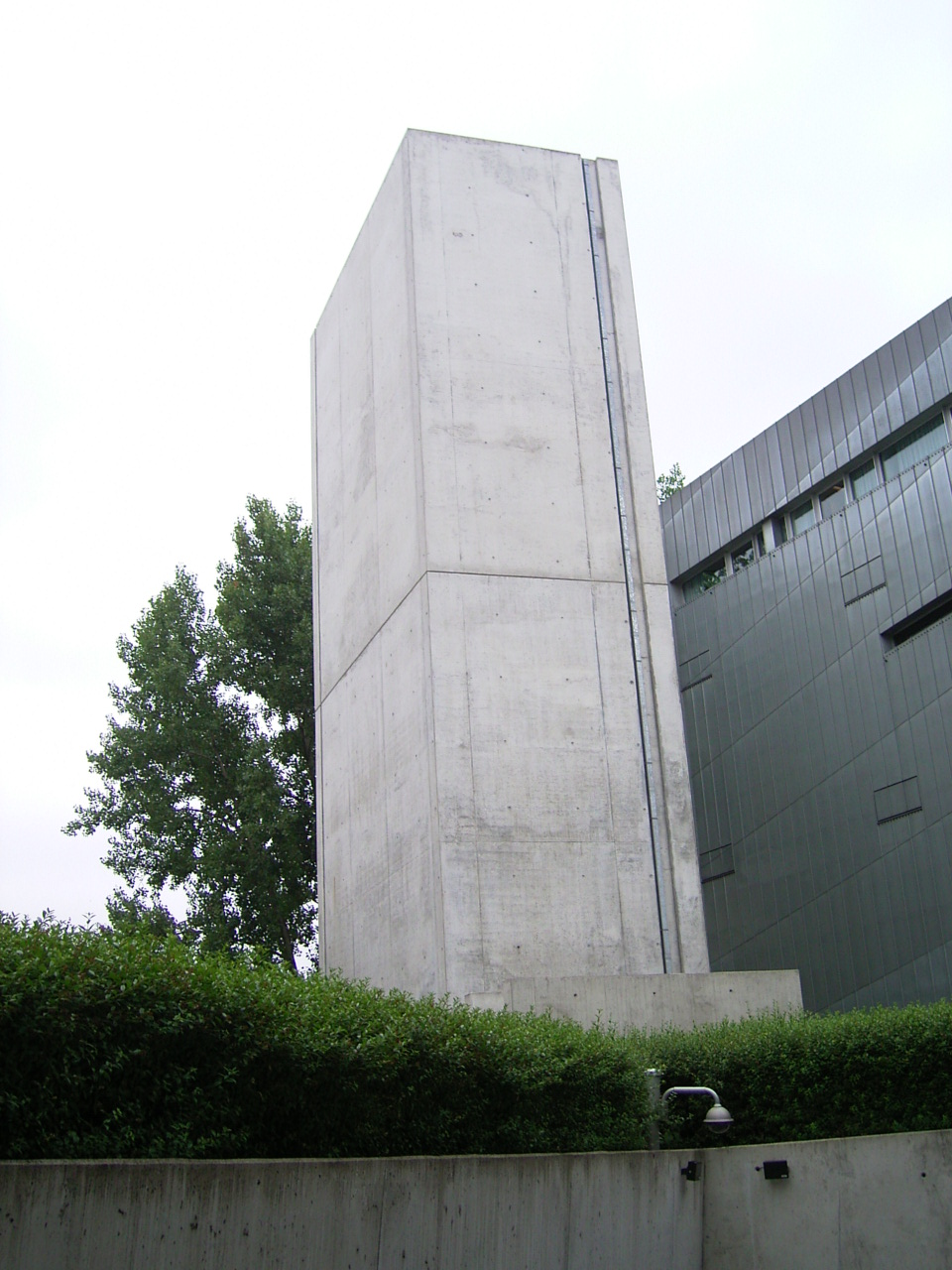 Exterrior of the Holocausttower in the Jewish Museum Berlin